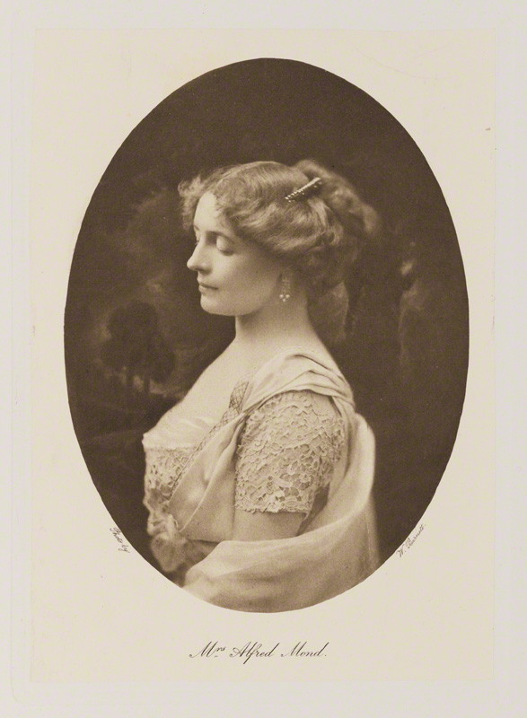 by Henry Walter ('H. Walter') Barnett, photogravure, published 1909 Violet Florence Mabel MOND (GOETZE), Baroness Melchett, DBE (1867 - 1945) - Genealogy